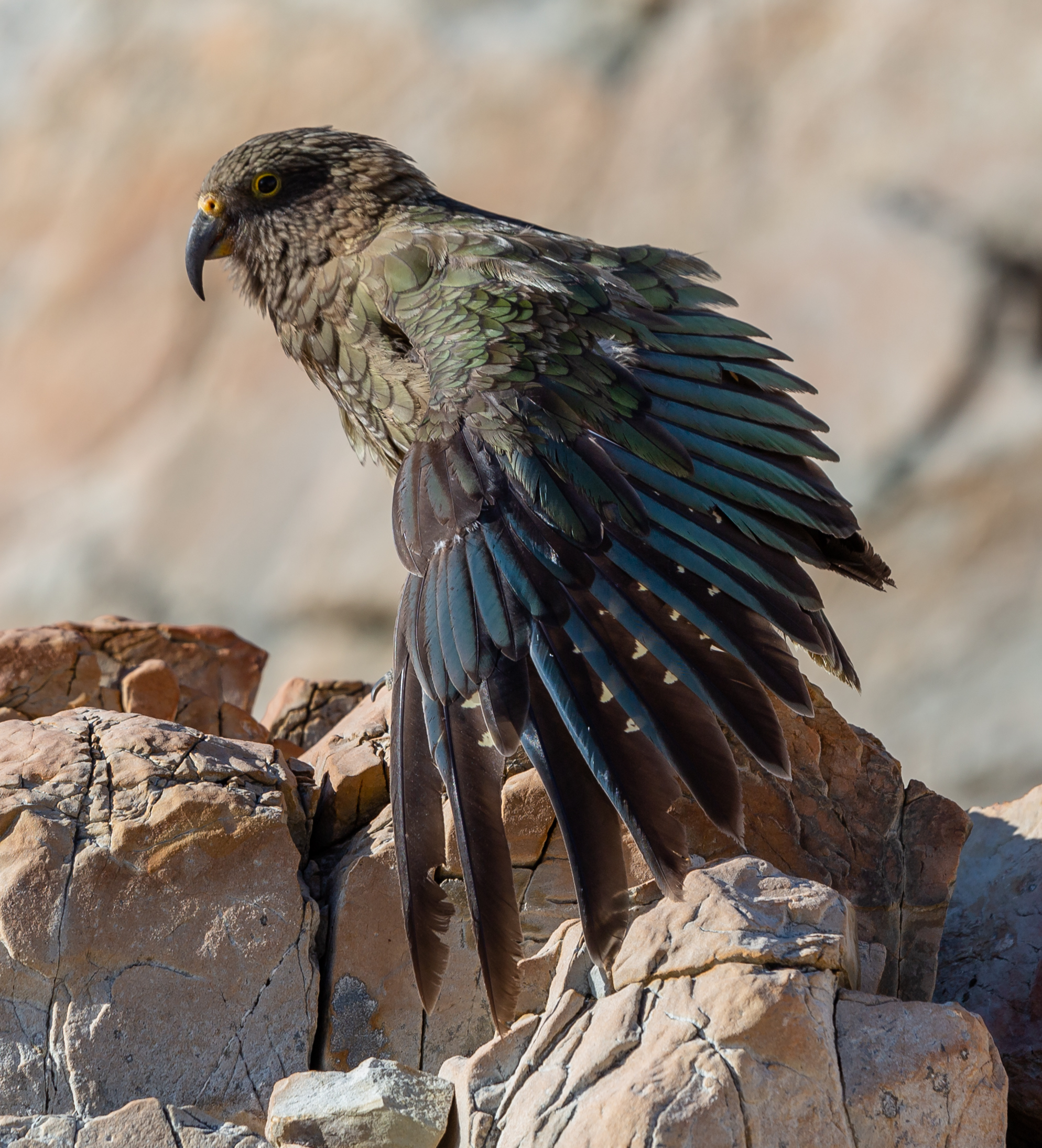 Kea (Nestor notabilis) by Mueller Hut, Aoraki/Mount Cook National Park, New Zealand